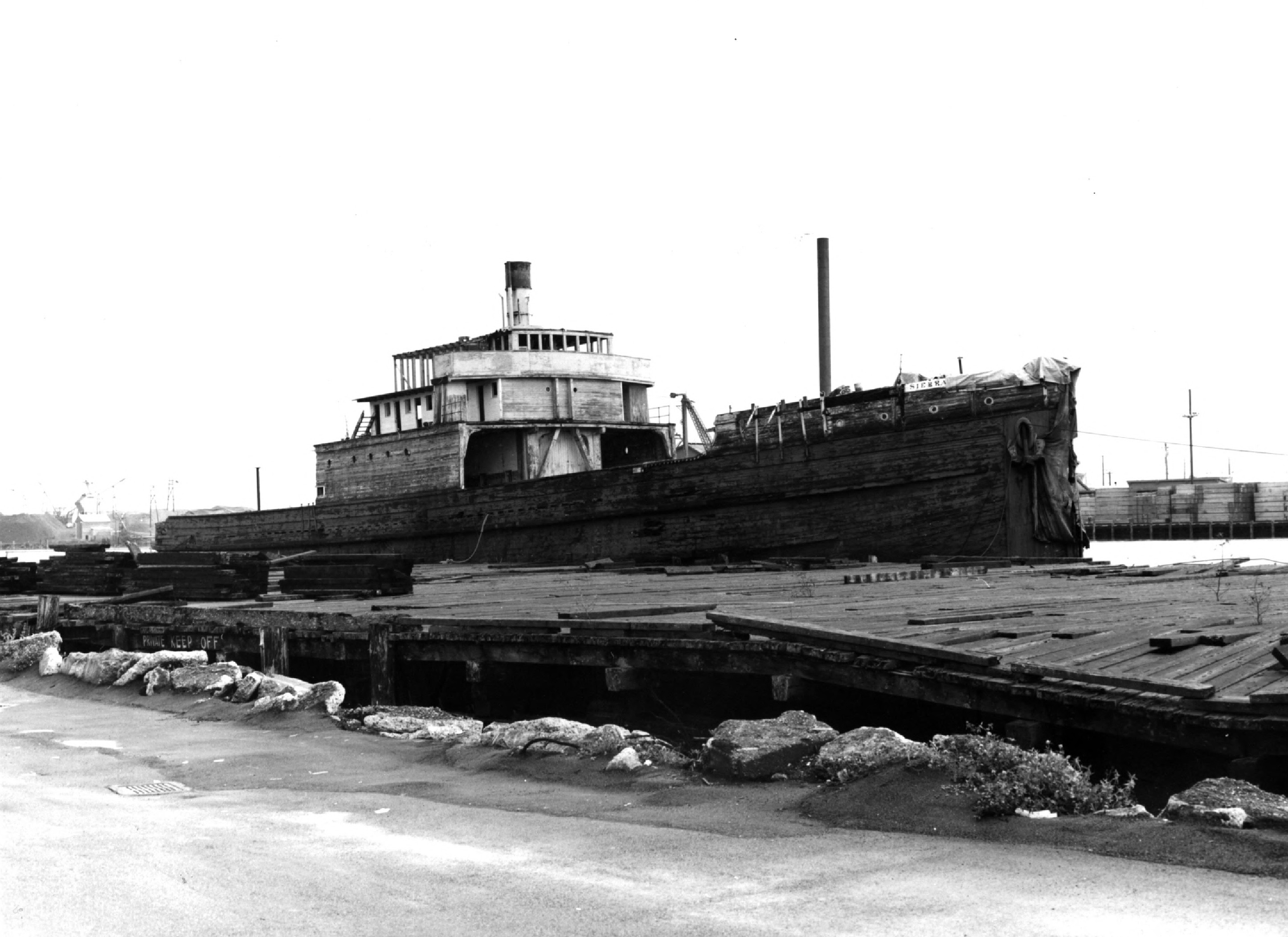 The historic M/S Sierra (built 1916), formerly moored on the Chehalis River at 1401 Sargent Boulevard in Aberdeen, Washington, United States, is listed on the US National Register of Historic Places. By 1990 the ship was no longer at this location.